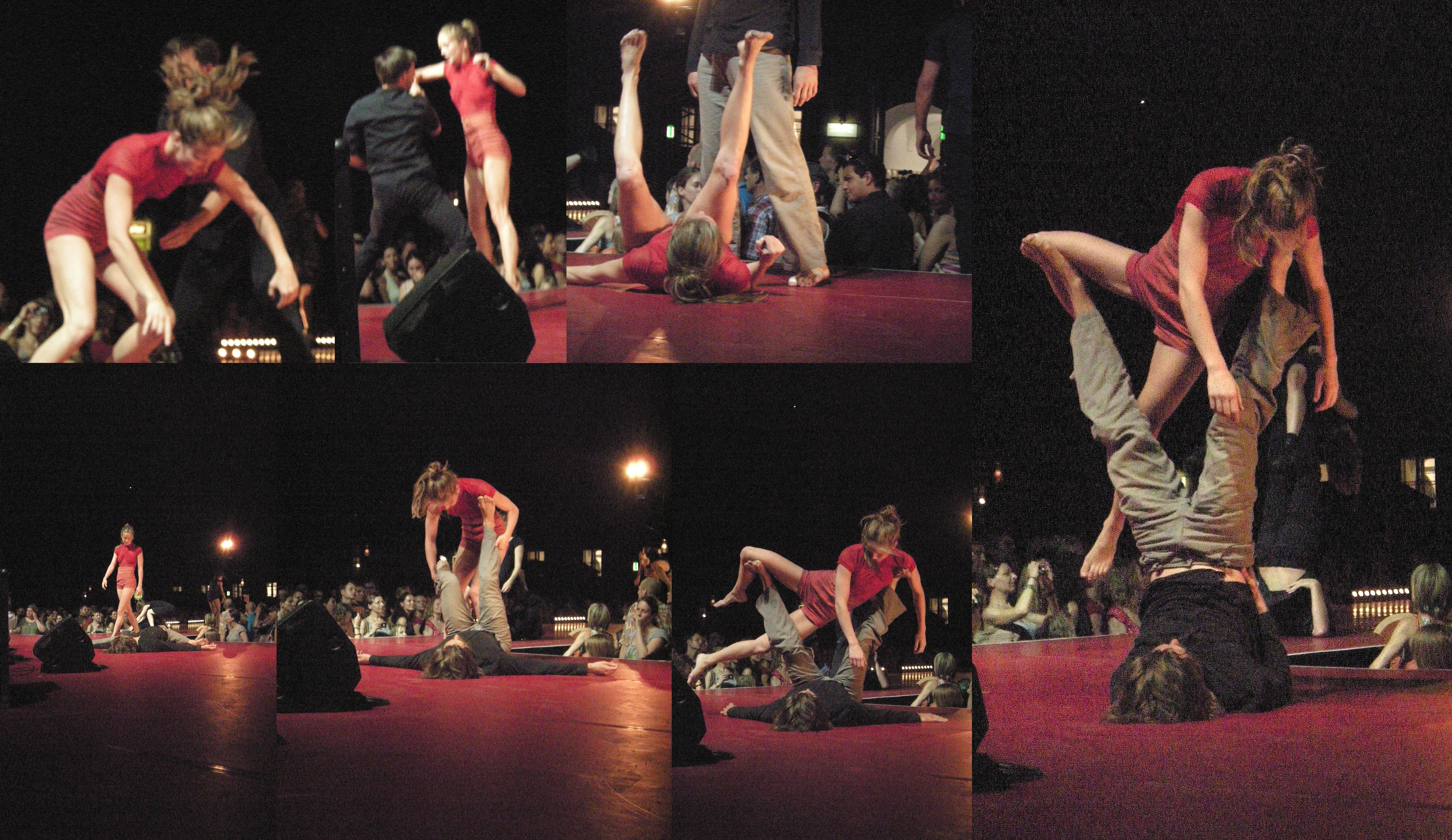 MQ Vienna 20100716 - ImPulsTanz opening performance 098ff Note: Camera's time stamp is set to UTC, which is local CEST -2h.